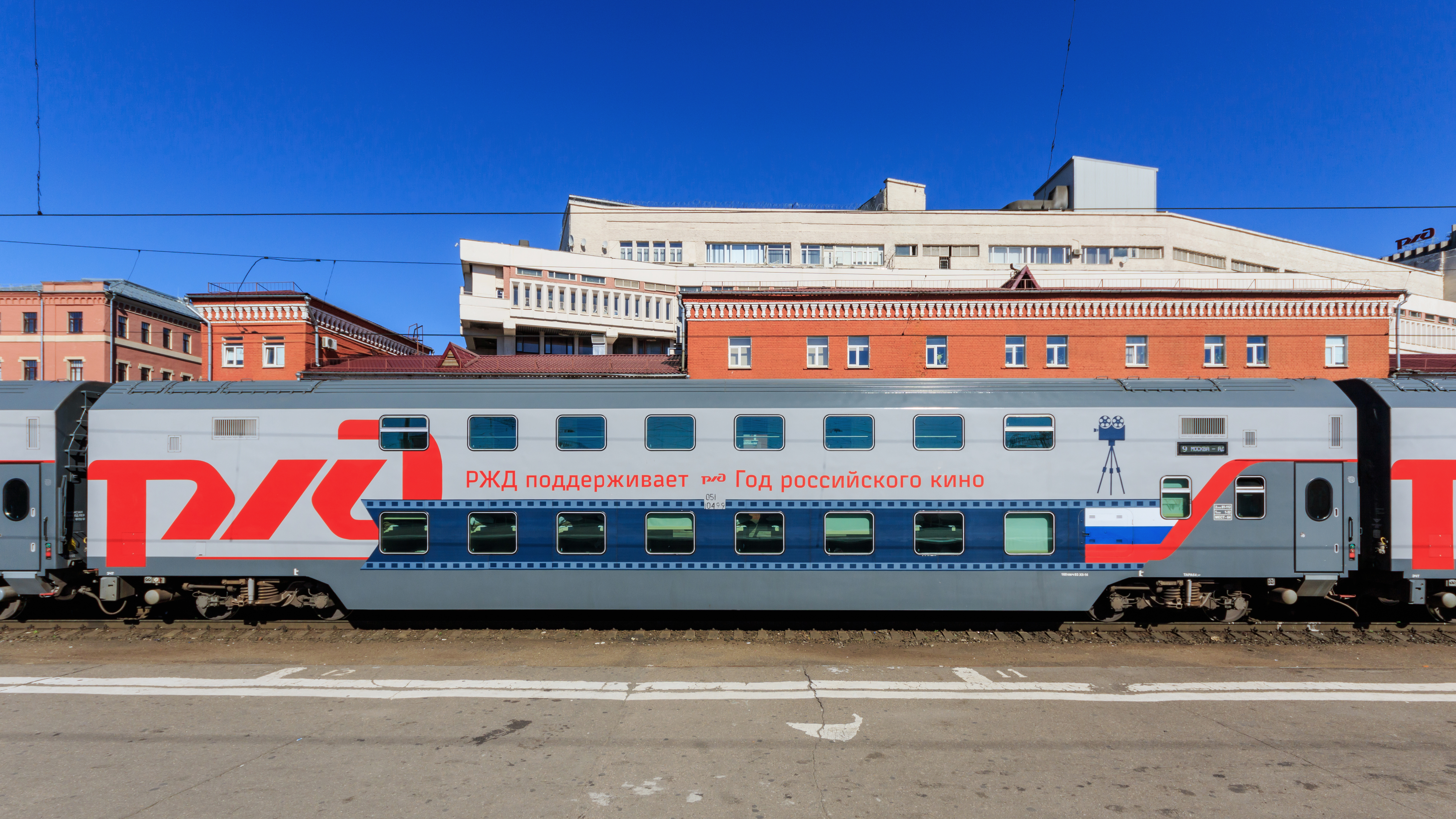 Coach of a TverVZ double-decker train on Moscow-Adler route, taken at Kazansky Rail Terminal. Moscow, Russia.